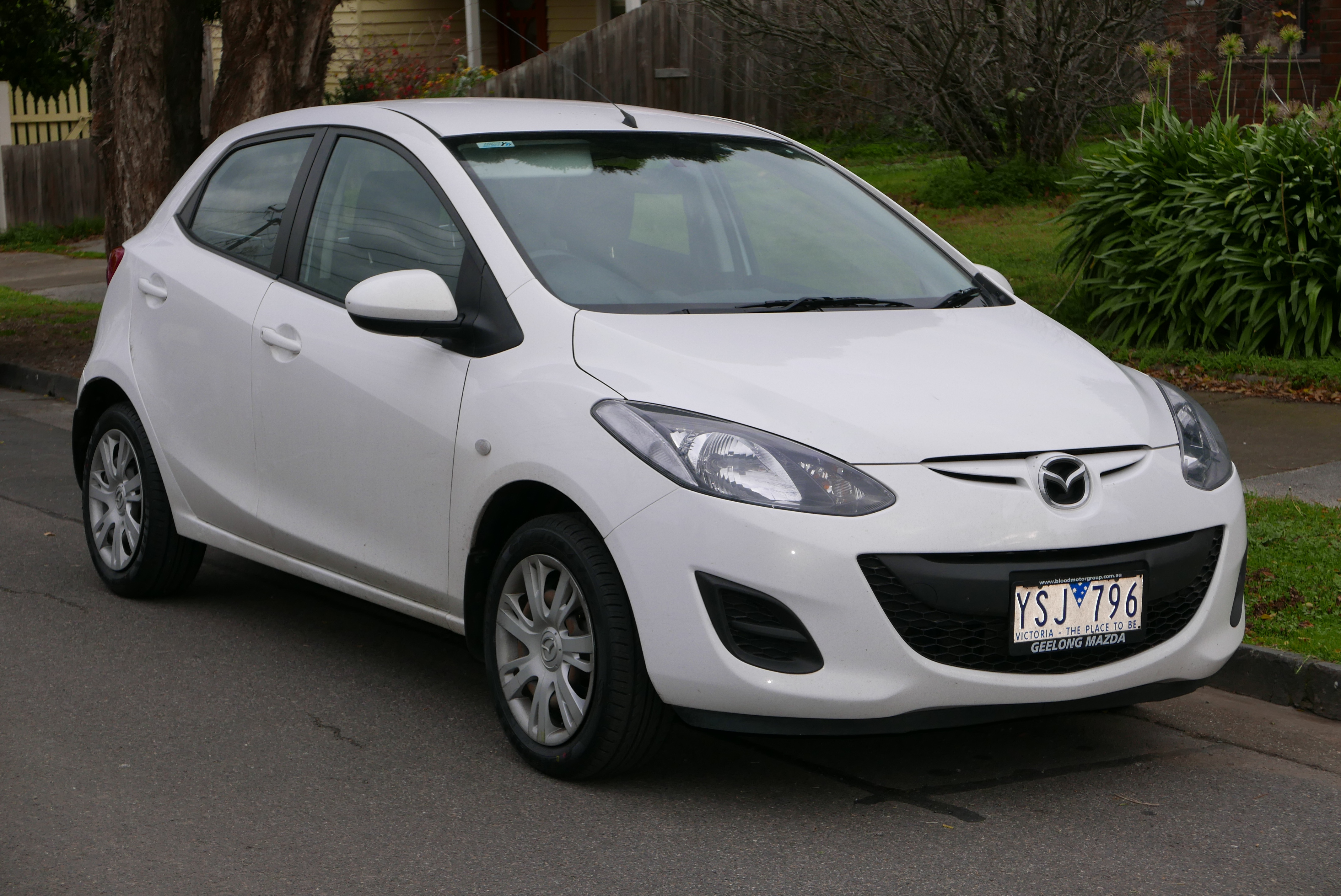 2011 Mazda2 (DE Series 2 MY12) Neo 5-door hatchback. Photographed in Alphington, Victoria, Australia. Vehicle registration enquiry resultsJurisdictionVictoriaRegistrationYSJ796Chassis codeJM0DE10Y2C0221868Engine codeZYA65665Compliance date2011-10Year of manufacture2011